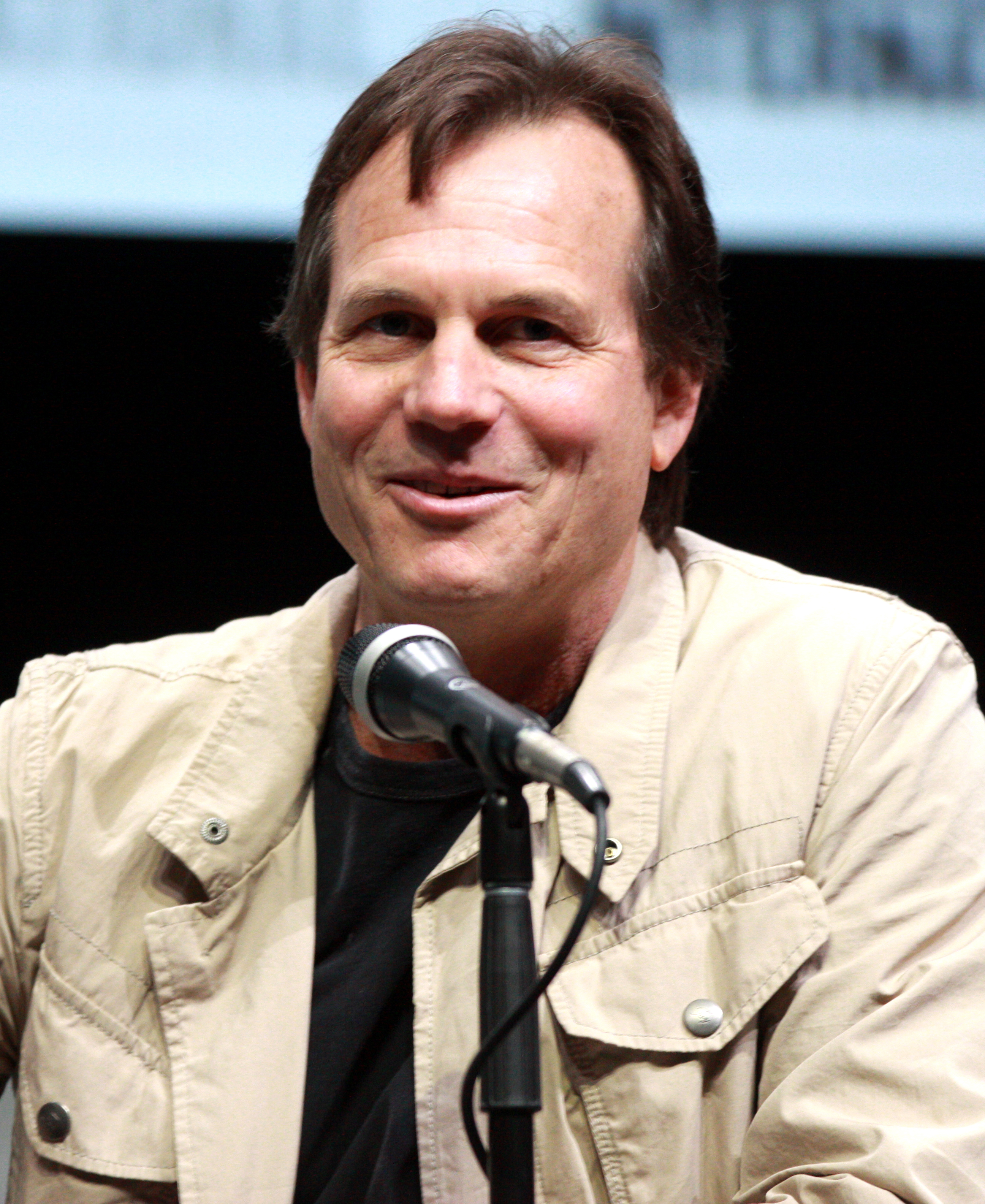 Bill Paxton at the 2013 San Diego Comic Con International in San Diego, California.